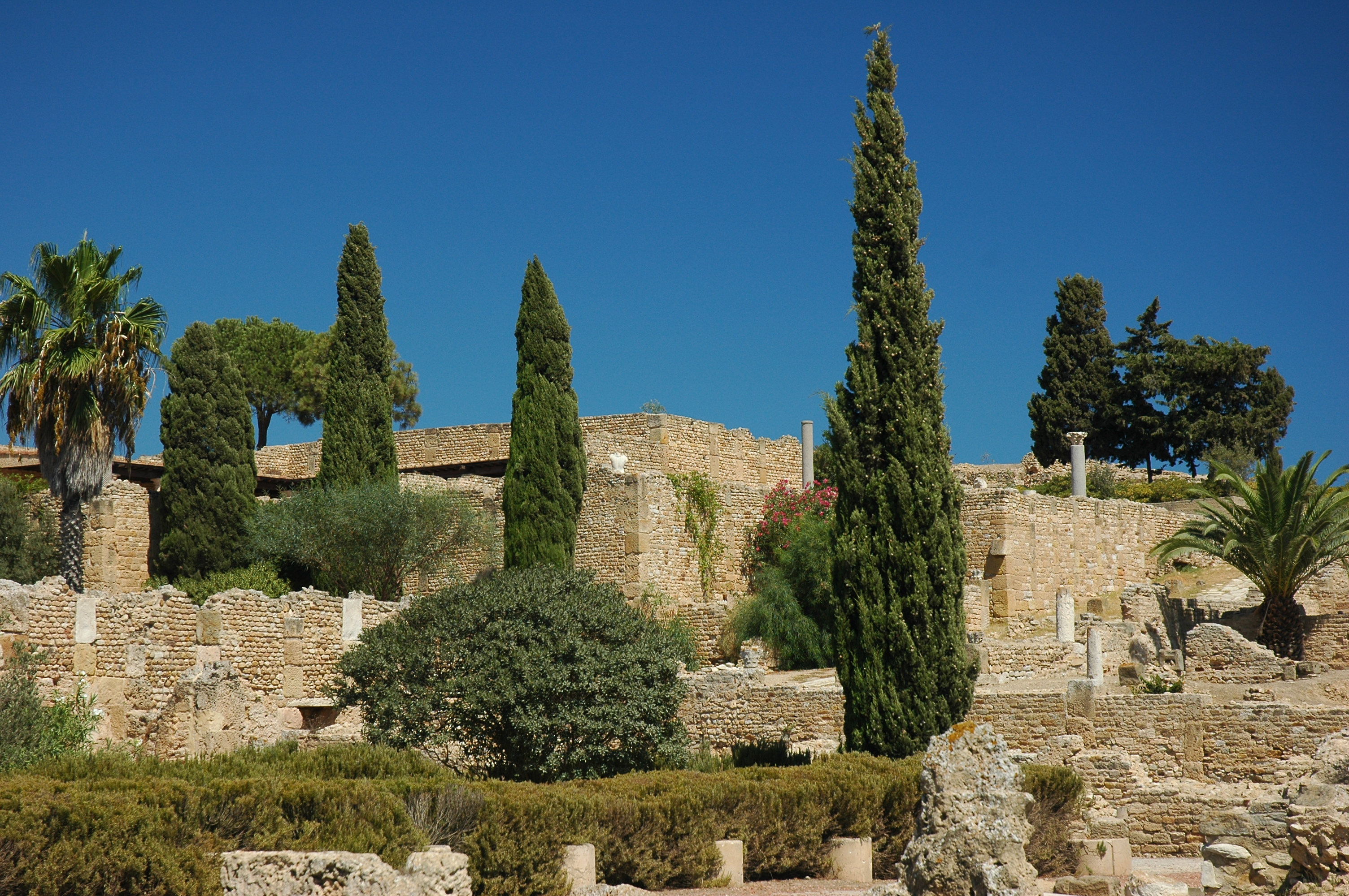 Tunisie Carthage Photographie prise par Patrick GIRAUD